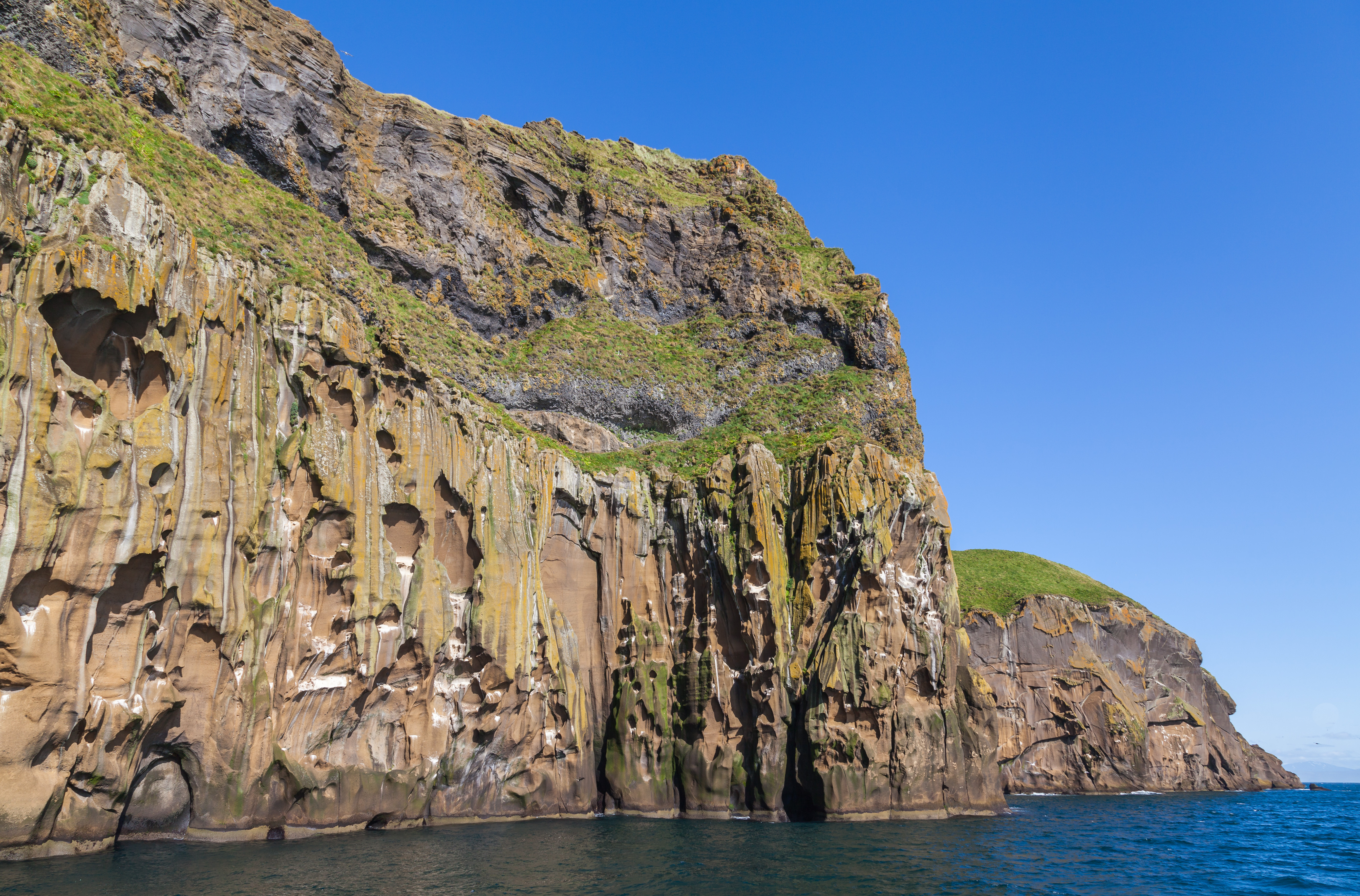 Cliffs of Heimaey, Westman Islands, Suðurland, Iceland